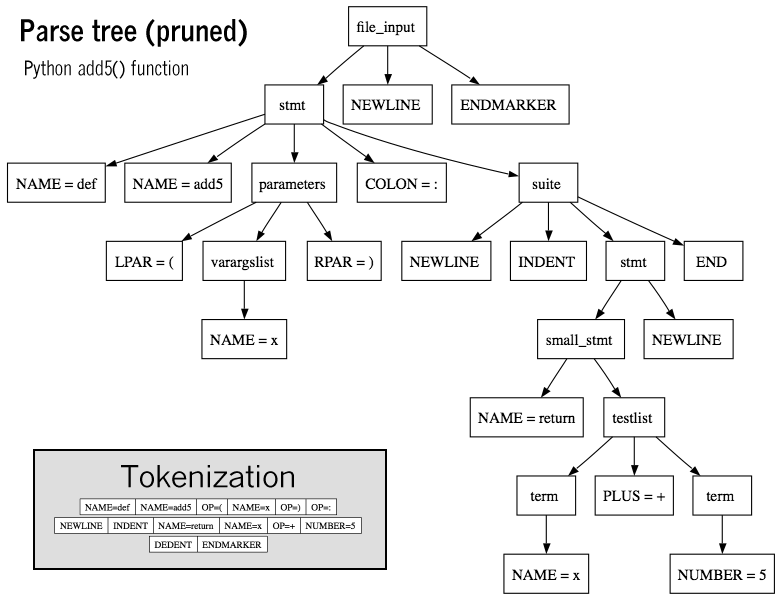 An SVG version of this image exists at :Image:Python add5 parse.svg. This was created from the same Graphviz (.dot) originals as the PNG, with combination of the tree and tokenization manually added using Inkscape, and labels added also. My original upload still has somewhat less attractive fonts than the PNG version, including some not as nicely sized to their box. Someone with more vector editing experience might improve the SVG before we use it in articles. LotLE×talk Summary Example of programming language parse tree.